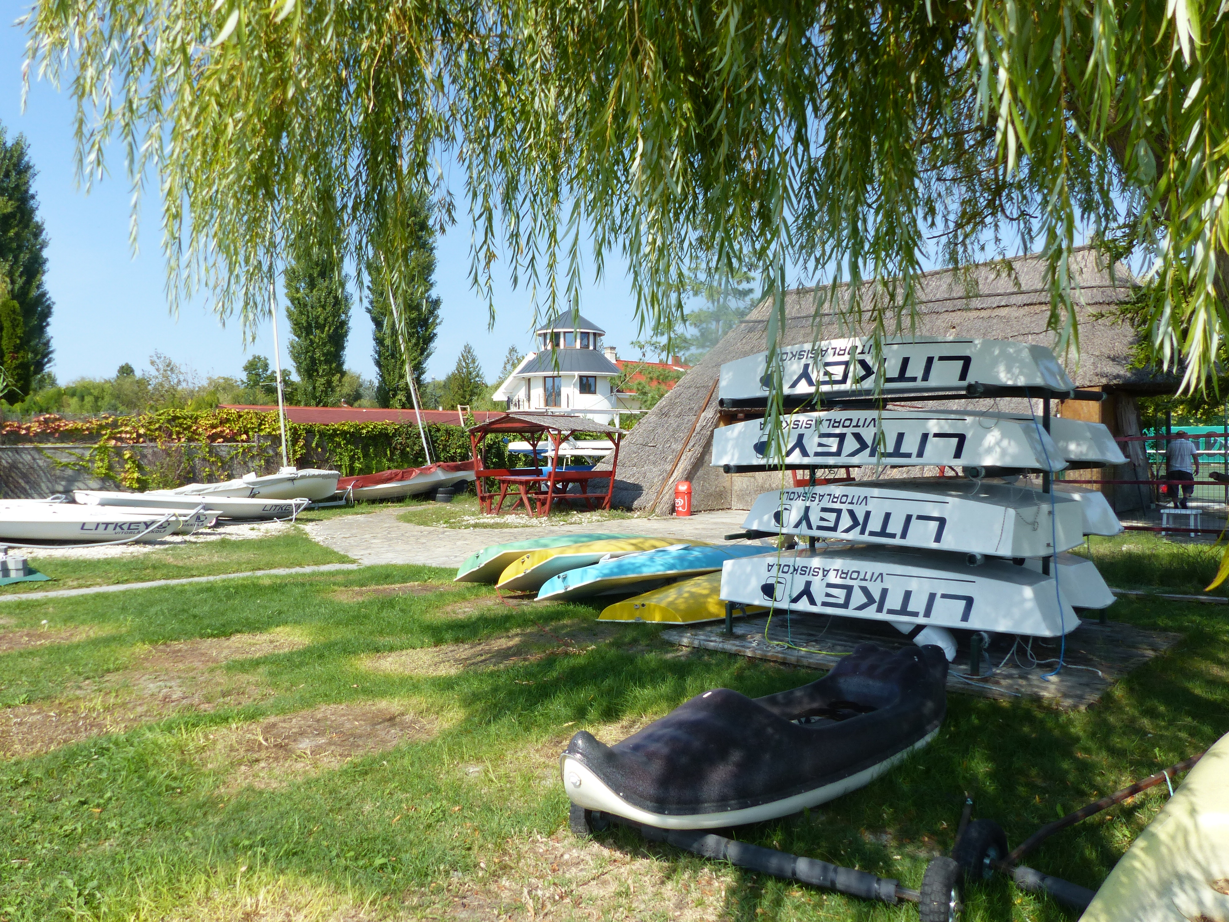 Taken on the 10th of September, 2017. Hotel Marina Port. Balatonkenese, Hungary, Central Europe.